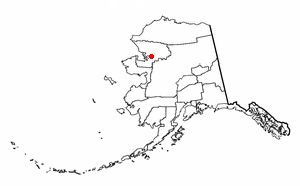 Adapted from Wikipedia's AK borough maps by Seth Ilys.